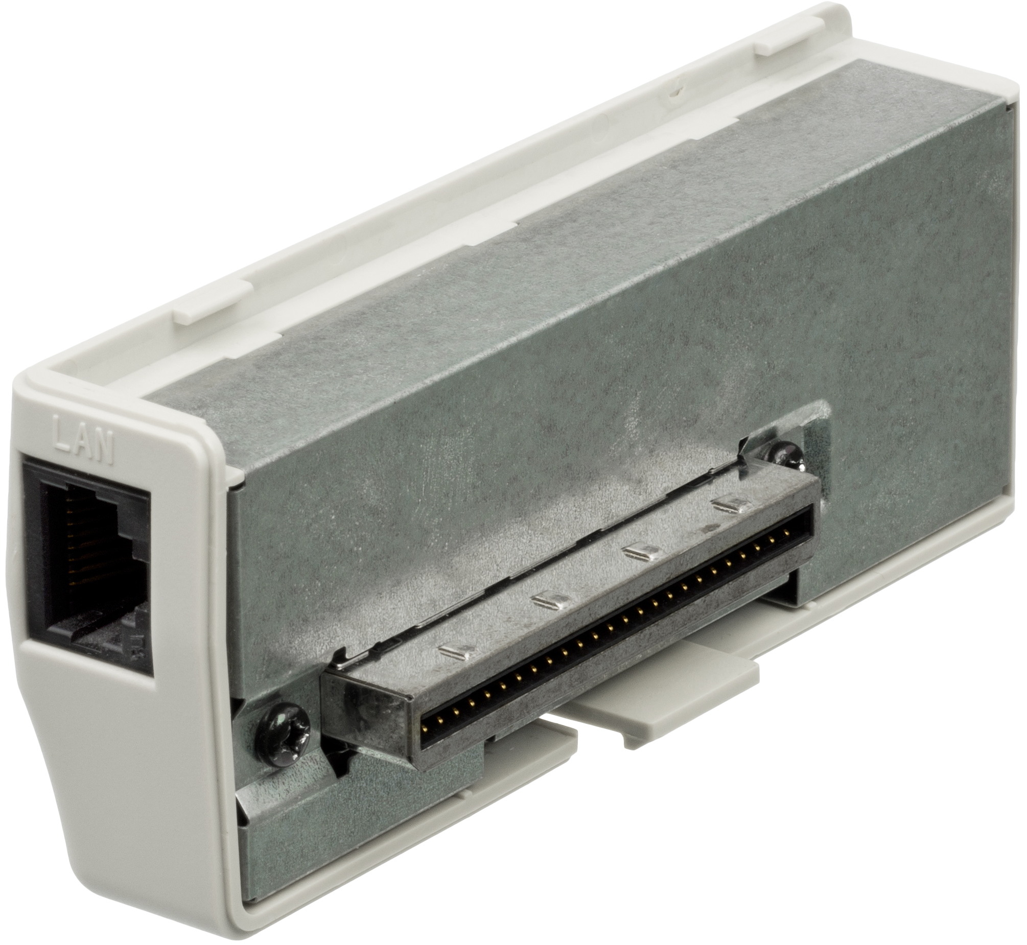 The HIT-401 broadband adapter for the Sega Dreamcast. Used for browsing the web and playing against others online, this adapter was released late in the life of the Dreamcast and offers much higher bandwidth than the dial-up modem.